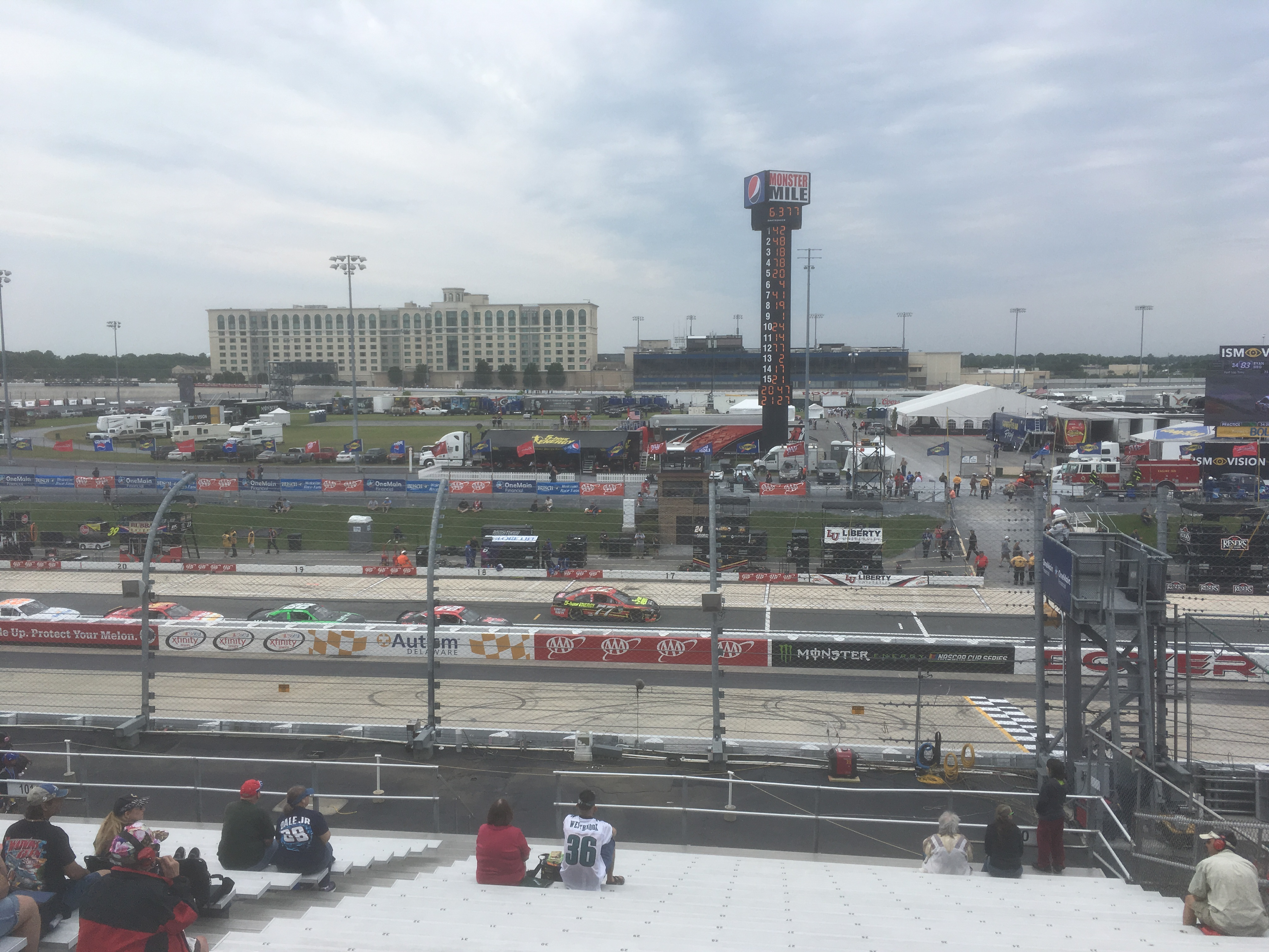 Final practice for the 2017 AAA 400 Drive for Autism at Dover International Speedway viewed from the frontstretch. Erik Jones (#77) drives by on pit road.